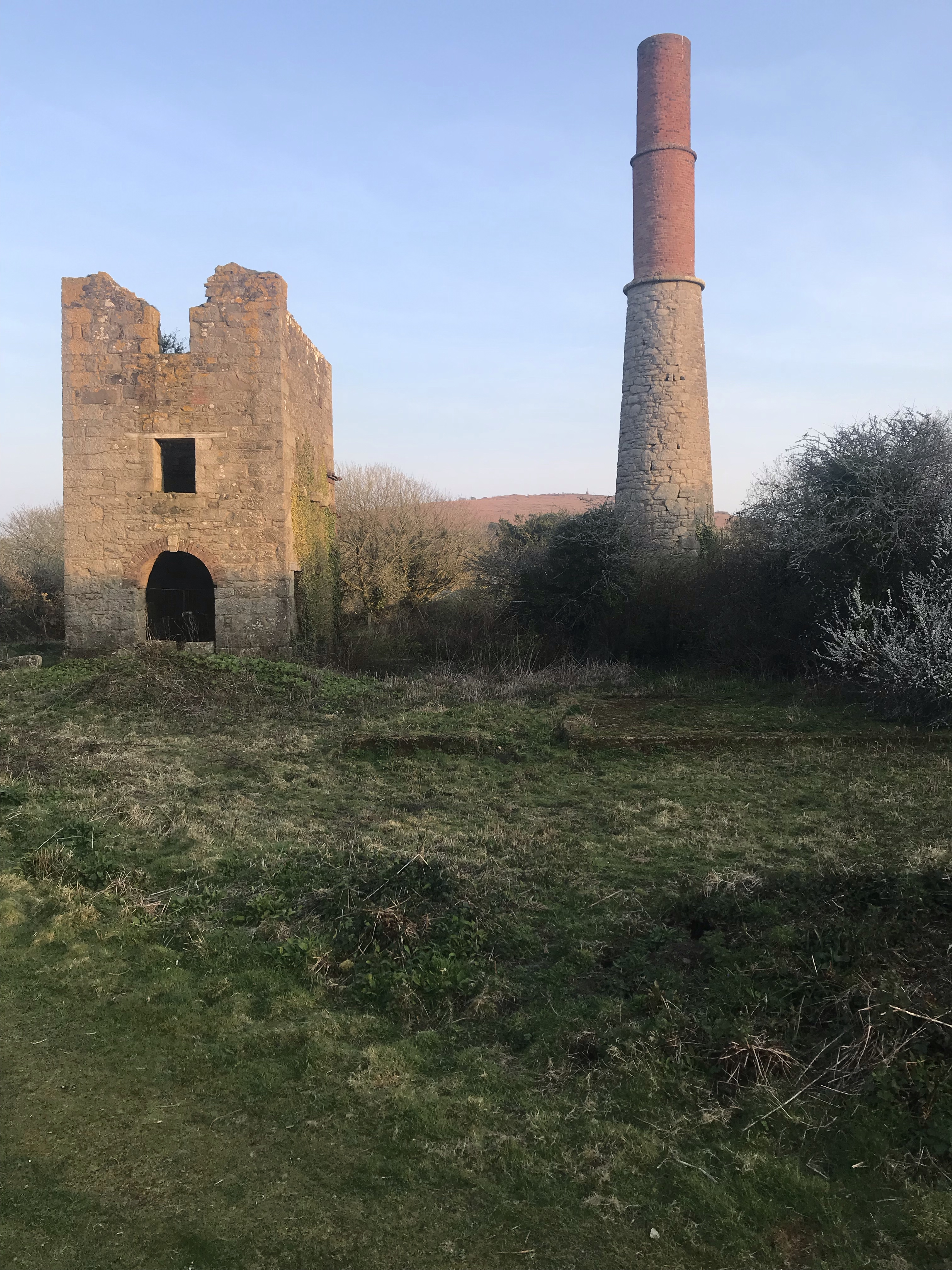 Great Work mine, whose principal ores were Copper, Tin & lead. Located in the south-west of Cornwall.